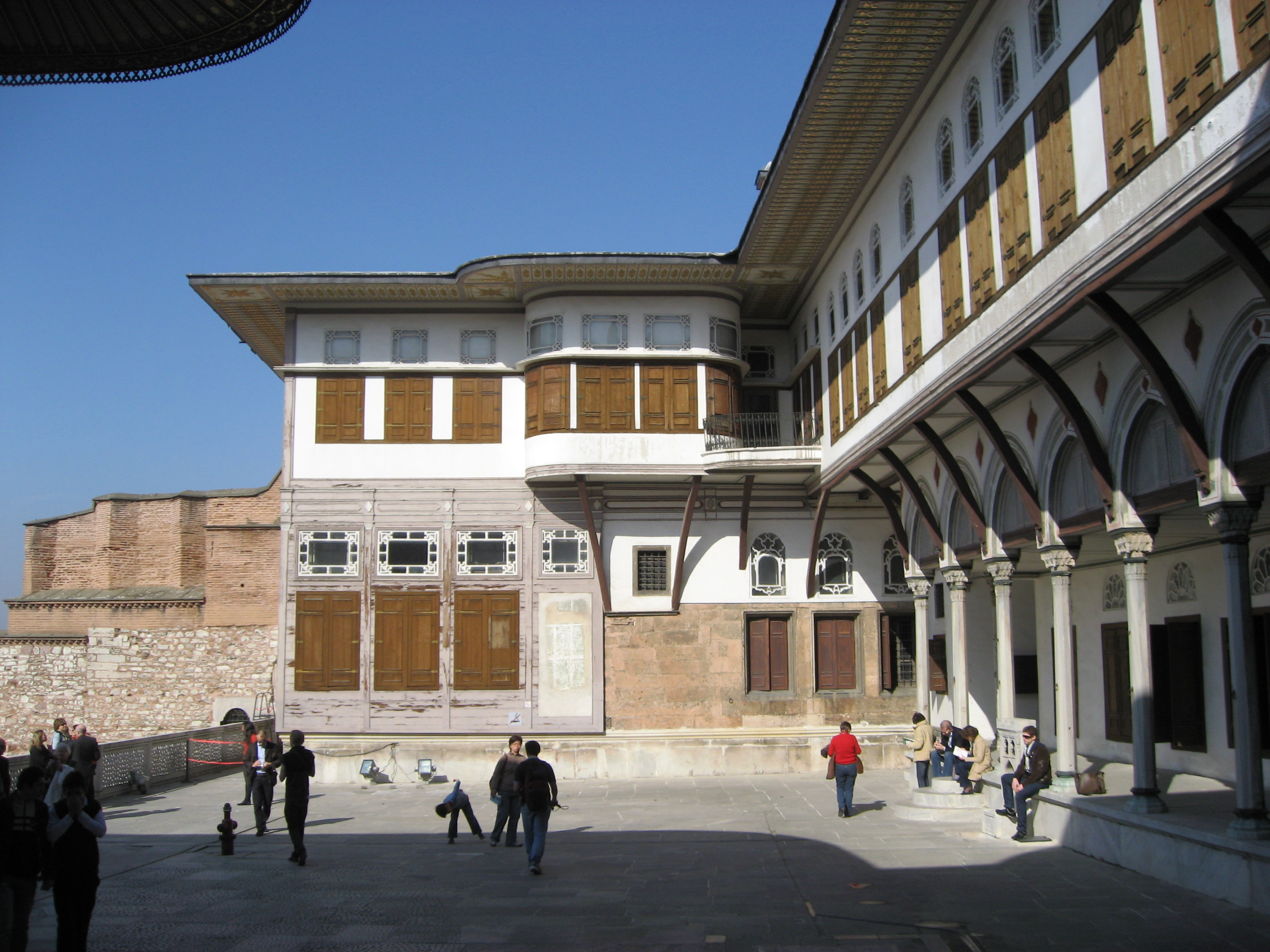 Courtyard of the Favourites at Topkapi Palace in Istanbul.